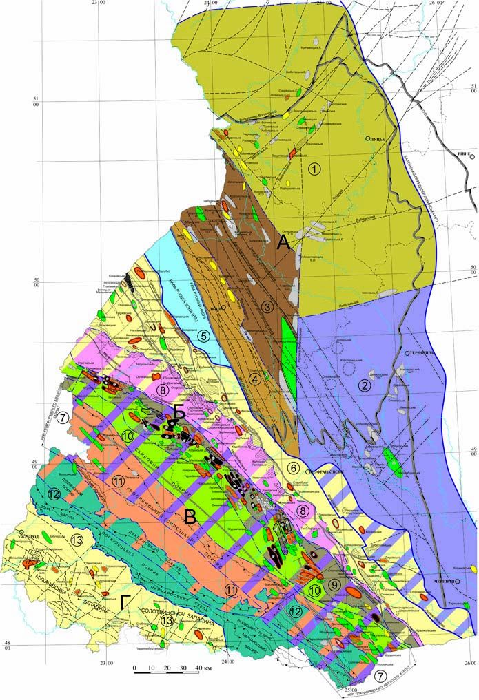 West oil and gas region of Ukraine